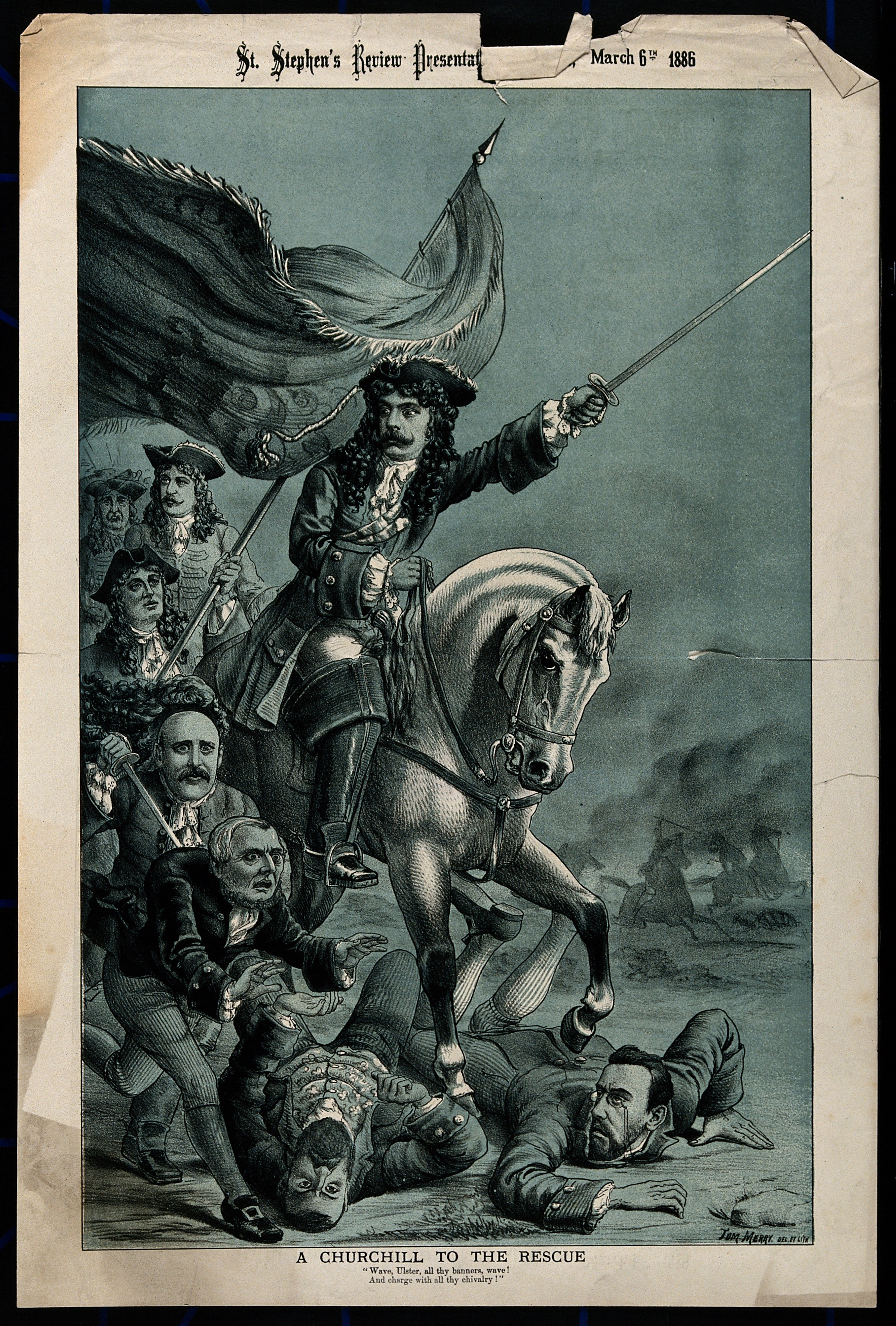 A political cartoon entitled "A Churchill to the rescue" (1886), showing a man in 17th century dress on horseback (presumably John Churchill, first duke of Marlborough), as leading an army and stamping on two men with his horse Iconographic Collections Keywords: Horse; Politician; Satire; Fighting; Soldier; Battle; Cartoon; Tom Merry